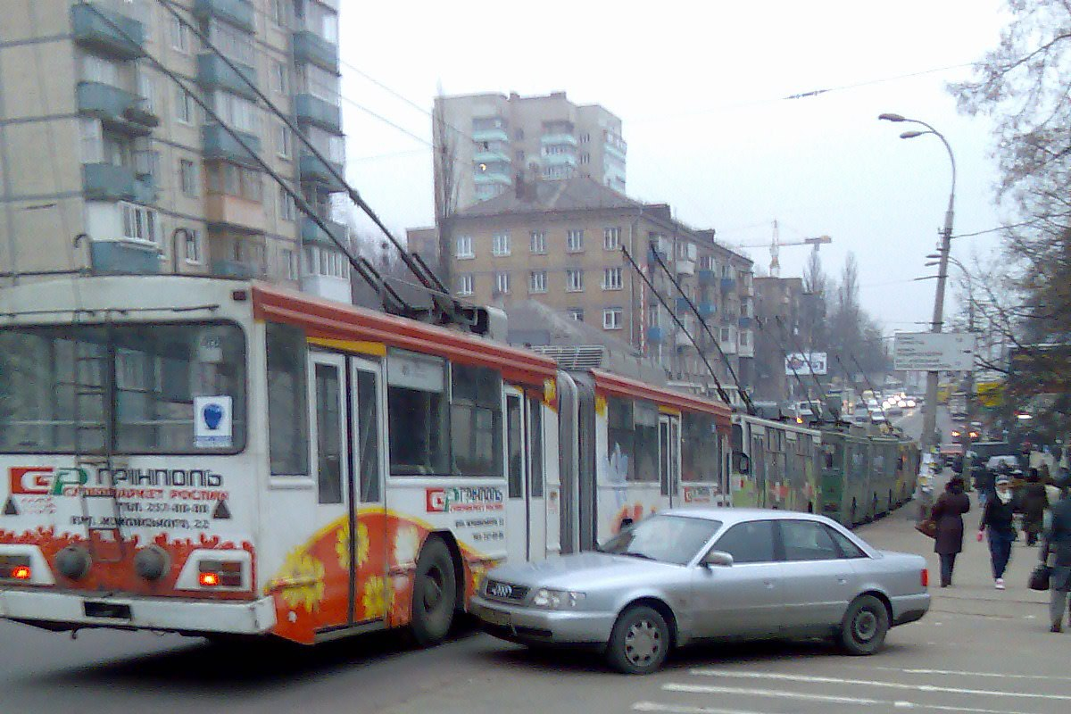 Trolleybus K12.03 in Kiev.